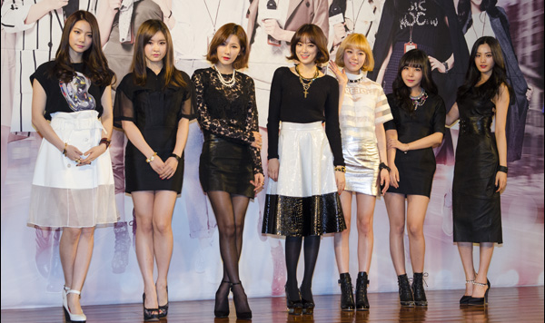 After School in January 15, 2014 at the AfterSchool's Beauty Bible production presentation.